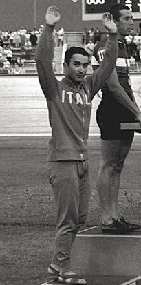 The Italian sprinter Giordano Turrini salutes the crowd at the velodrome of Mexico City while he is on the second step of the podium of the final Olympic race of individual sprint. The race was won by the French Daniel Morelon (on his left); in the third place, the French Pierre Trentin, who is standing behind both cyclists. Mexico City (Mexico), October 19, 1968.